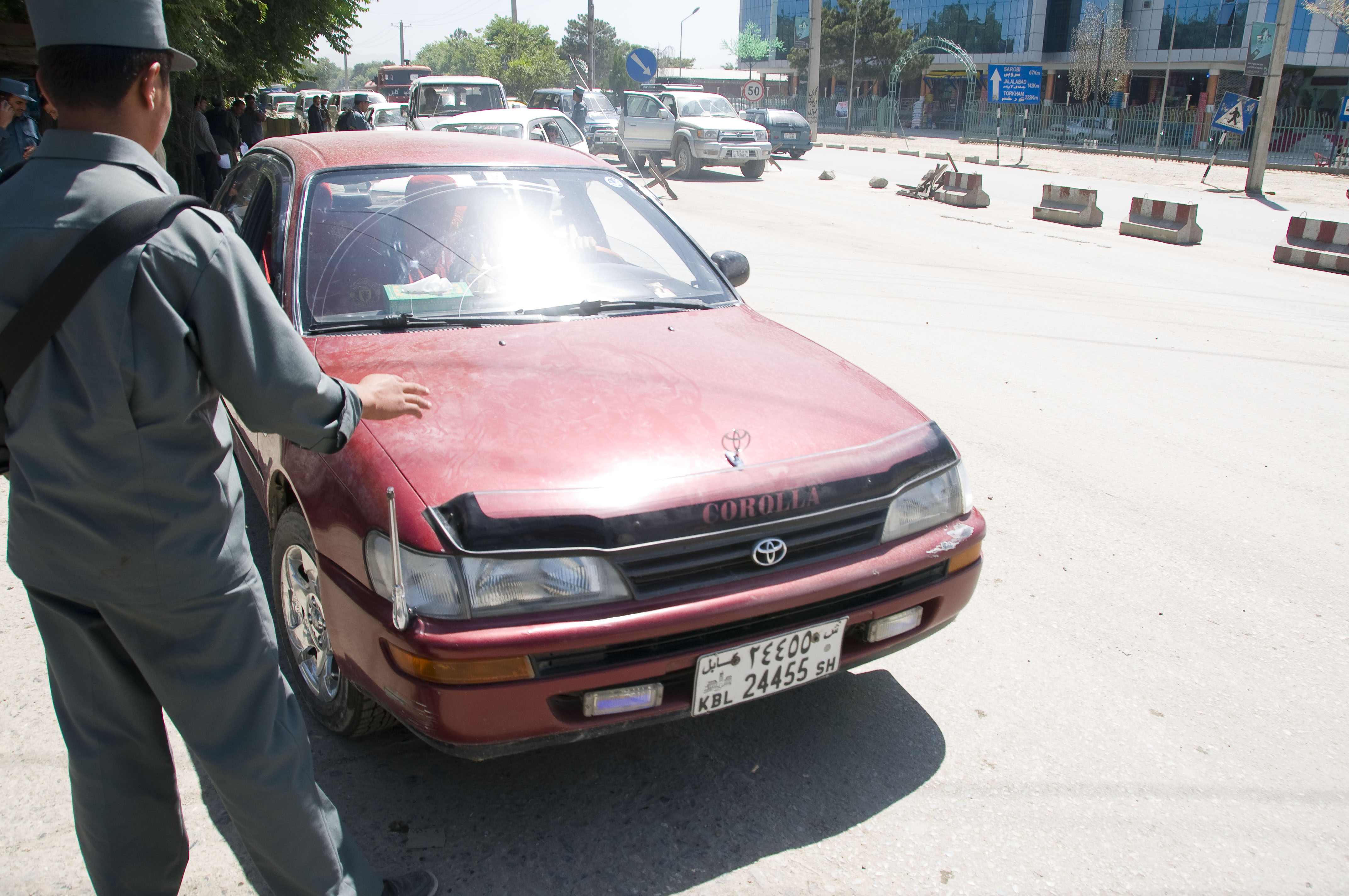 100605-F-1020B-002 Kabul - An Afghan National Police officer stops a vehicle for a random inspection at one of the inner city checkpoints June 5, 2010. The 25 checkpoints around the central section of Kabul, known as the Ring of Steel, are part of a new security measure for the capital city. (U.S. Air Force photo by Staff Sgt. Sarah Brown/RELEASED)